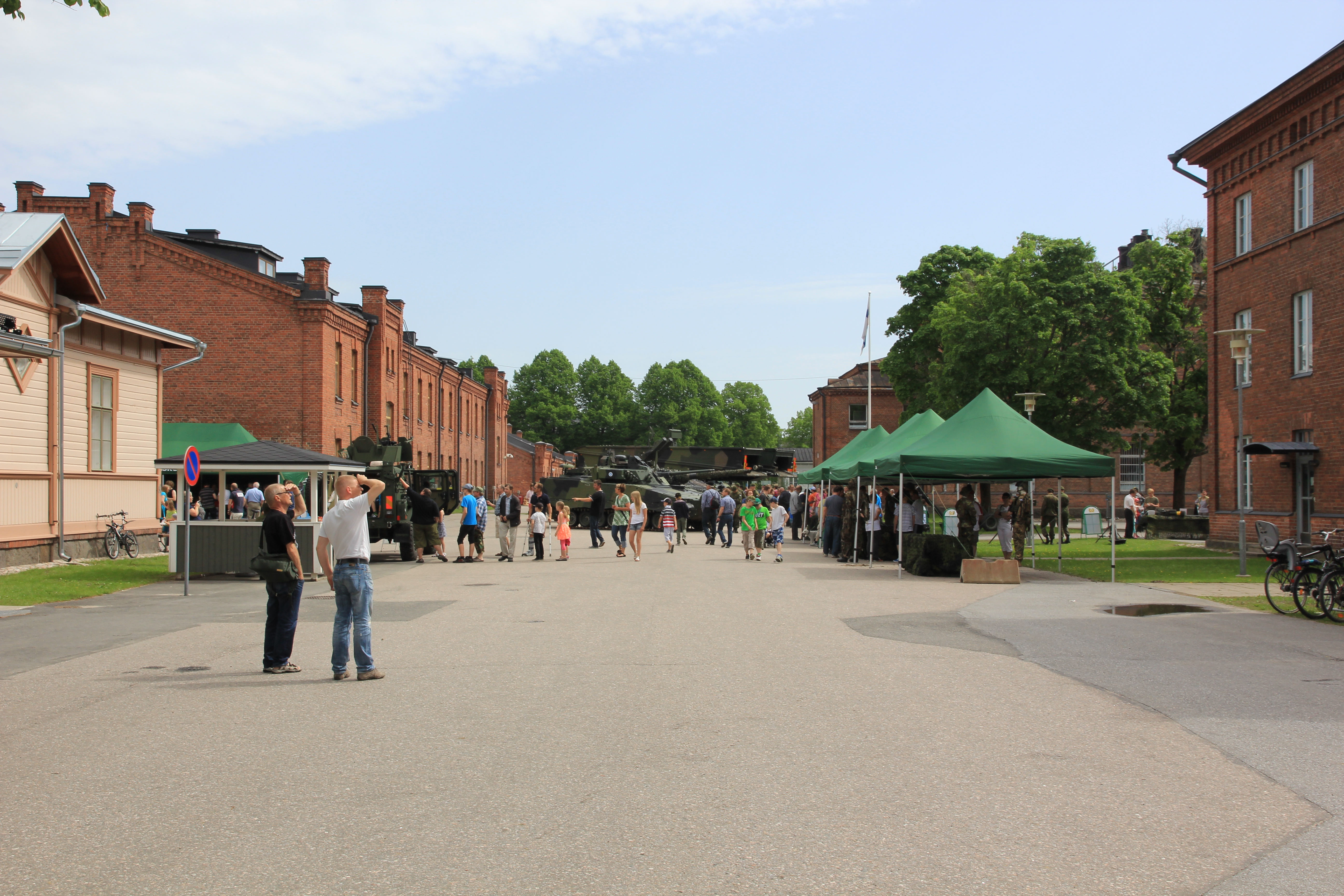 Finnish military vehicles on display during Finnish Defence Forces 2014 Flag day in Lappeenranta Rakuunanmäki.